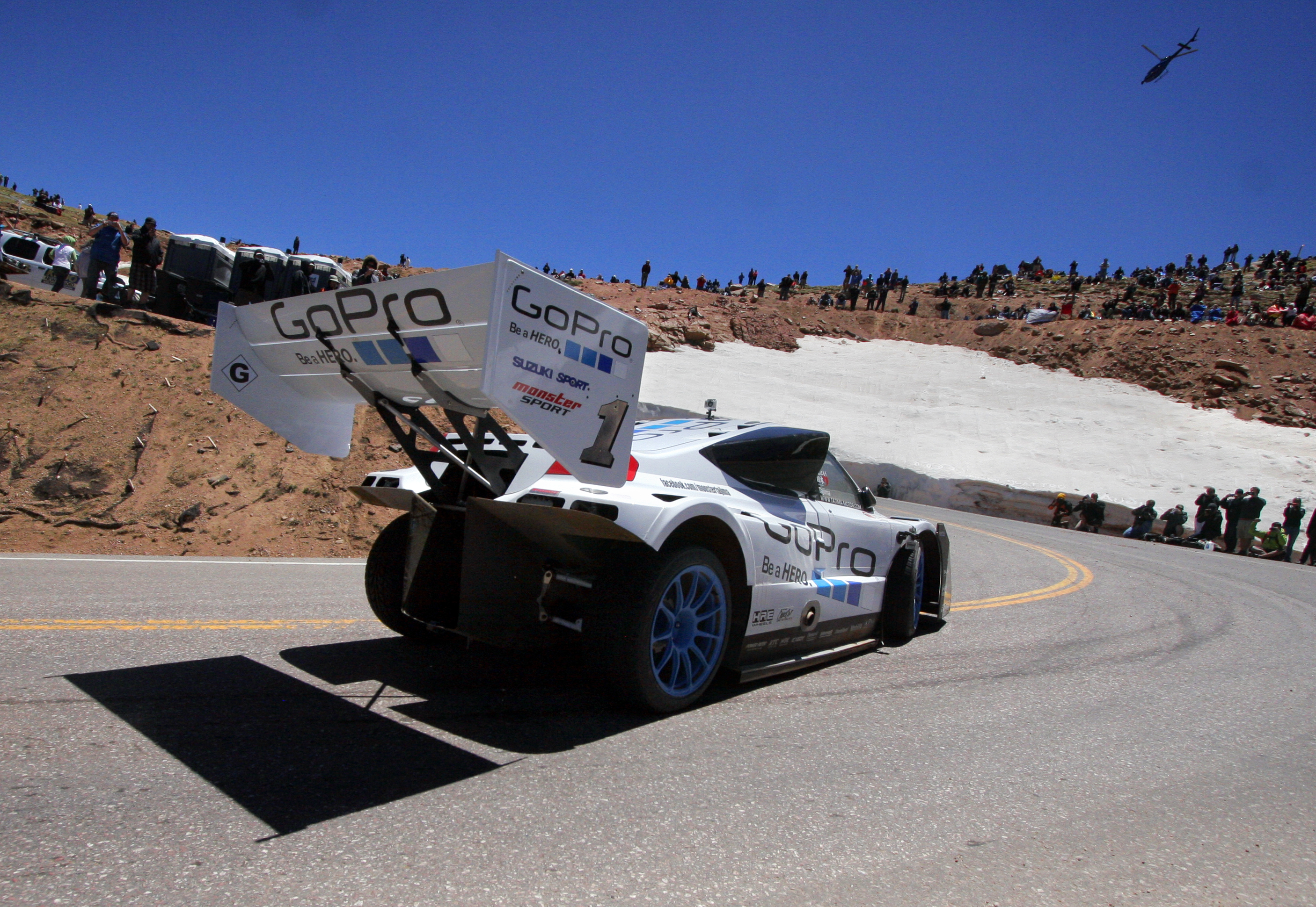 Nobuhiro Tajima's Suzuki SX4 at the 2011 Pikes Peak International Hill Climb, during the record breaking 9:51 run. Here he is passing the Devil's Playground.